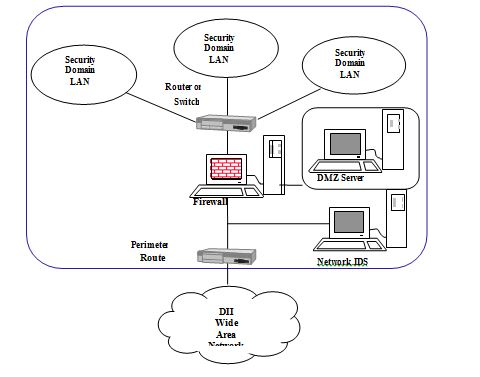 SECURITY TECHNICAL IMPLEMENTATION GUIDE ON ENCLAVE SECURITY